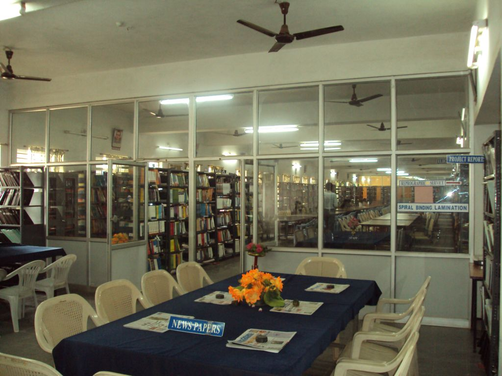 Library of NEC, Nellore